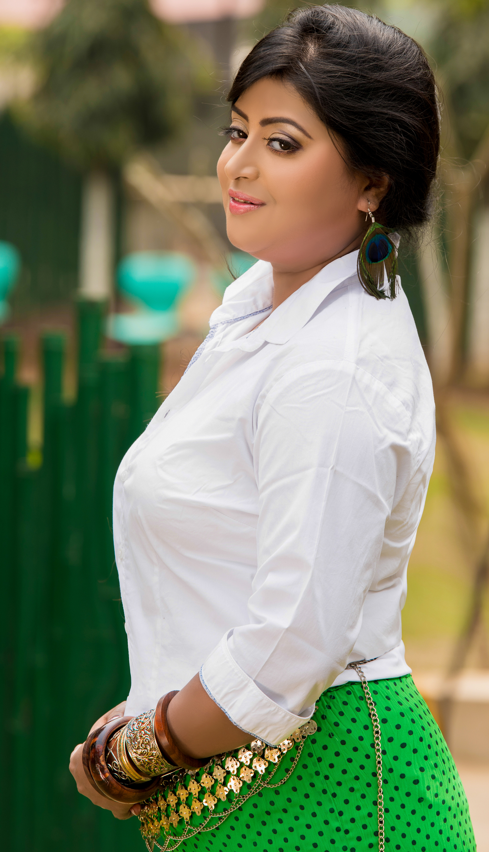 Anindita Paul at a Photo Shoot in Assam (2016).